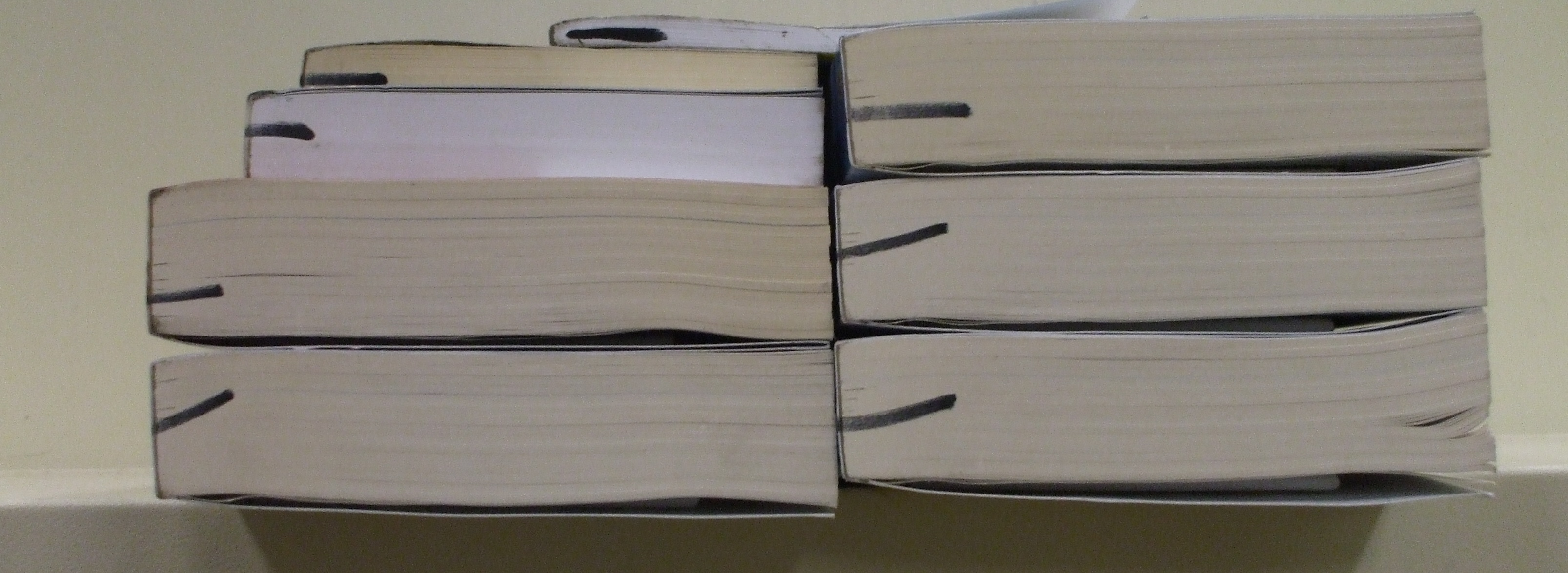 Remaindered Books on a book cart.